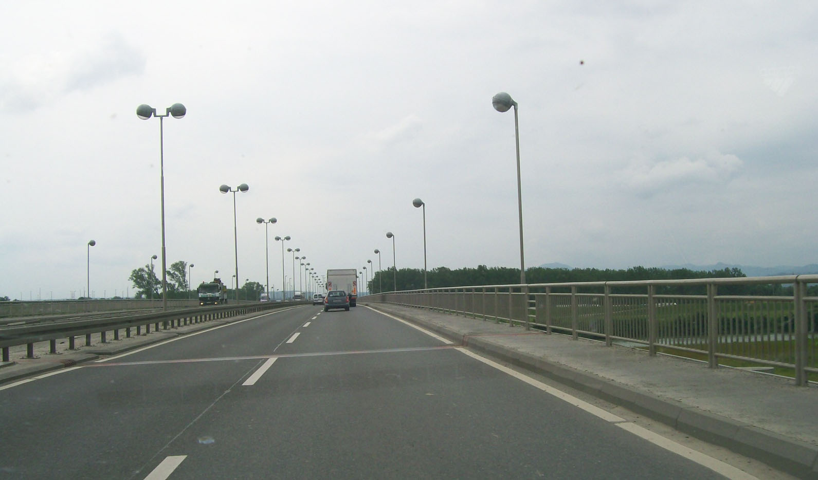 Jankomir Bridge over Sava in Zagreb